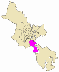 position of Nha Be district in an outline of the metropolitan area of HCMC (Ho Chi Minh City, Vietnam) - ISO code VN-F-HC. Keywords: map, outline, city, Ho Chi Minh City, HCMC, HCM, Nha Be district, huyen Nha Be.